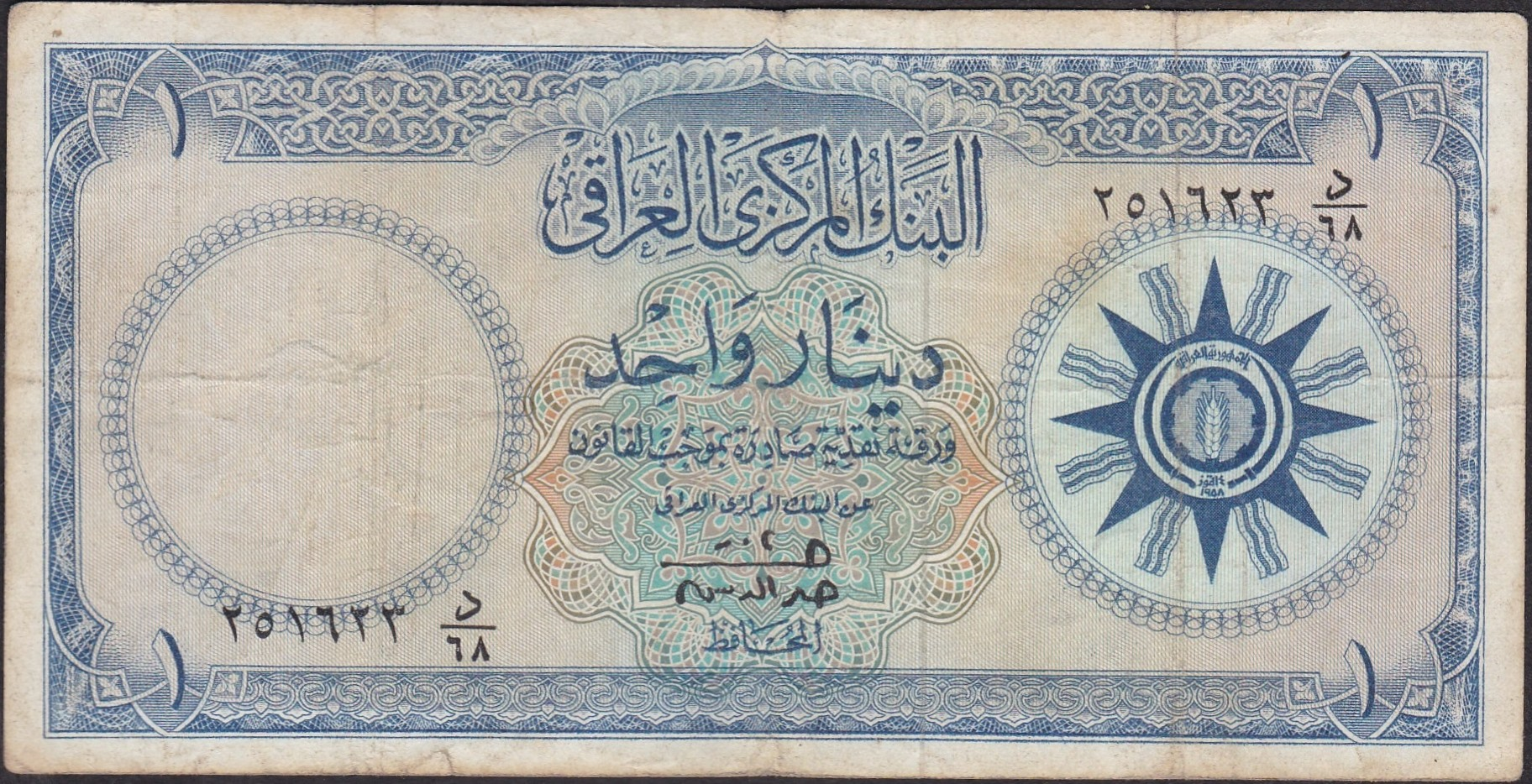 1 Iraqi dinar issued 1959 Signature by Khairuddin Haseeb Governor of the Central Bank.